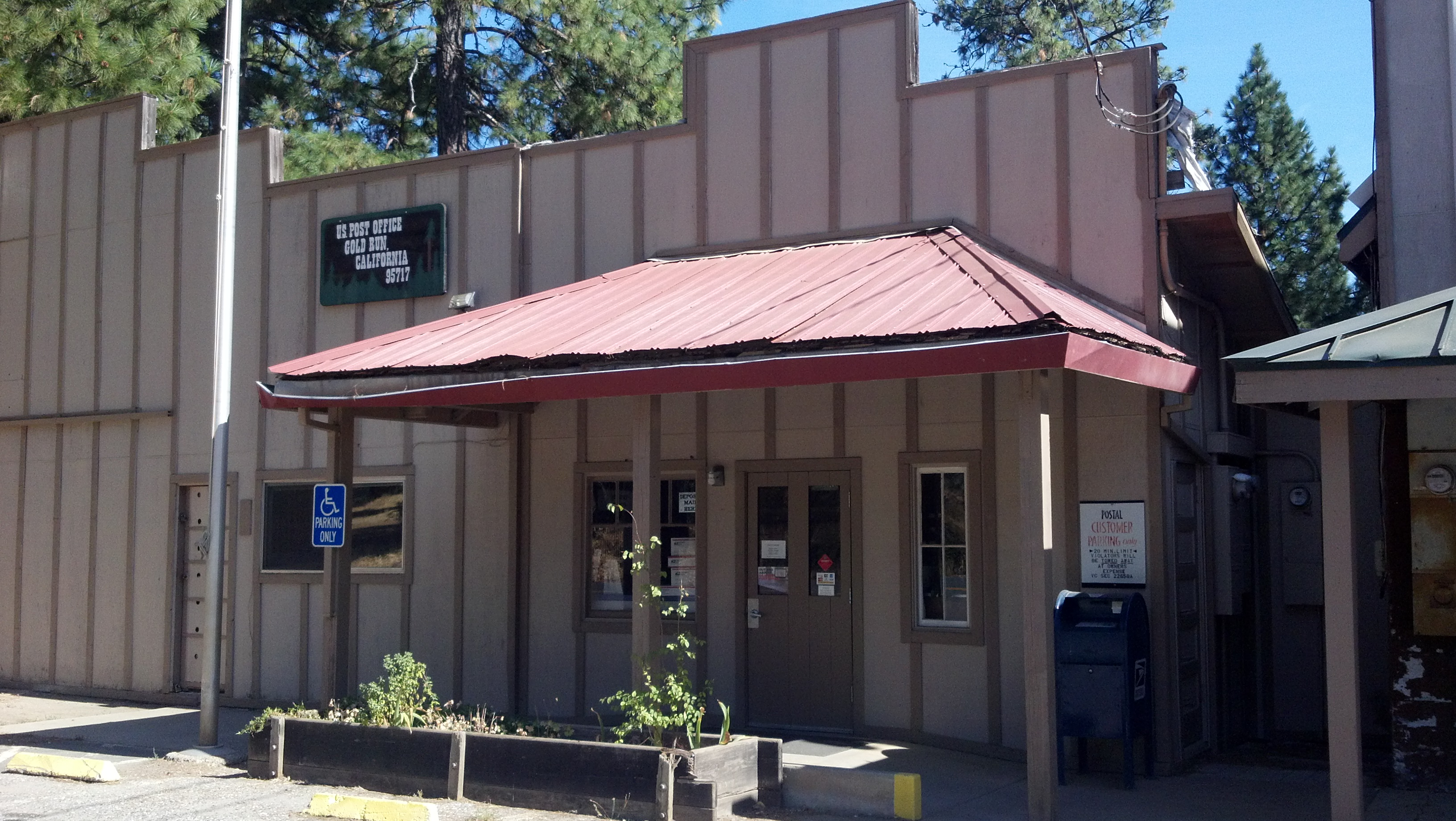 Gold Run